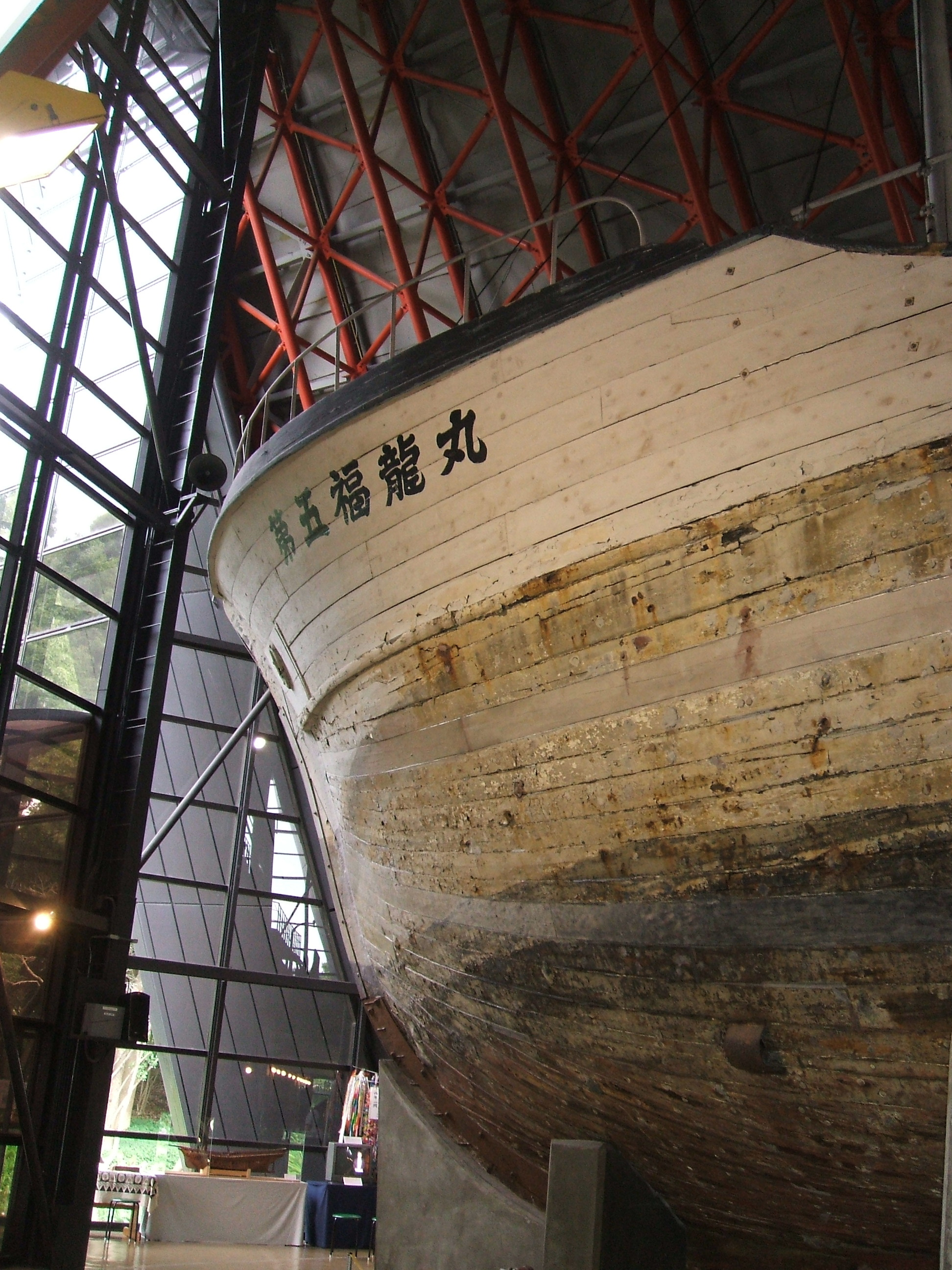 The bow of Daigo_Fukuryū_Maru（第五福竜丸の船首及び船名）